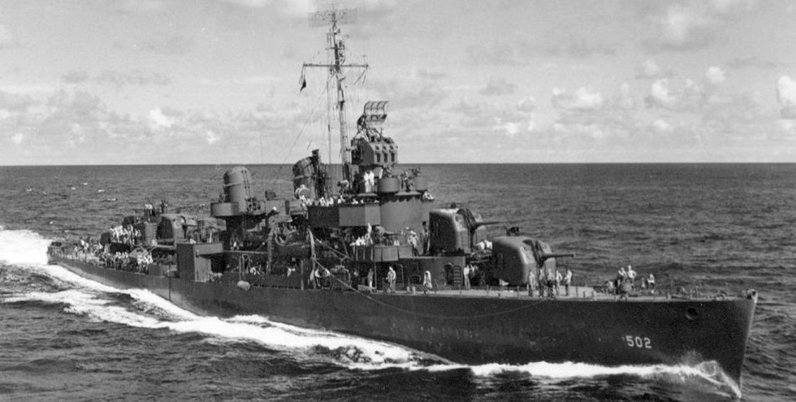 The U.S. Navy destroyer USS Sigsbeev (DD-502) is coming alongside of the escort carrier USS Chenango (CVE-28) in the Pacific Ocean on 23 June 1944. At that time they were screening one of amphibious groups returning to Eniwetok from the first postponed landing on Guam.